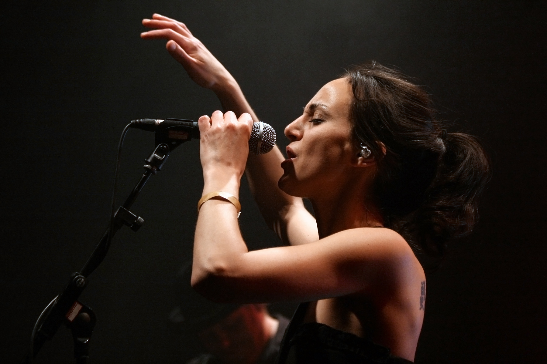 Tania Saedi, presentation of the album Exhale at the cultural center WUK in Vienna, Austria.